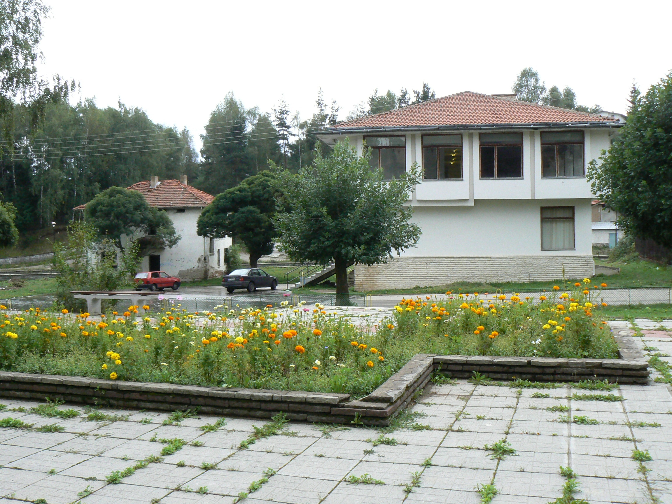 Dolni Okol village in Bulgaria - the garden and the mayor's office